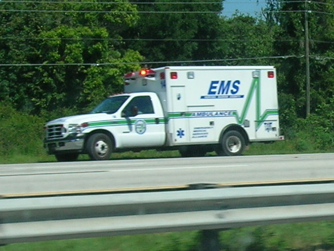 An ambulance with EMSA in Marion County, FL along side of the highway.